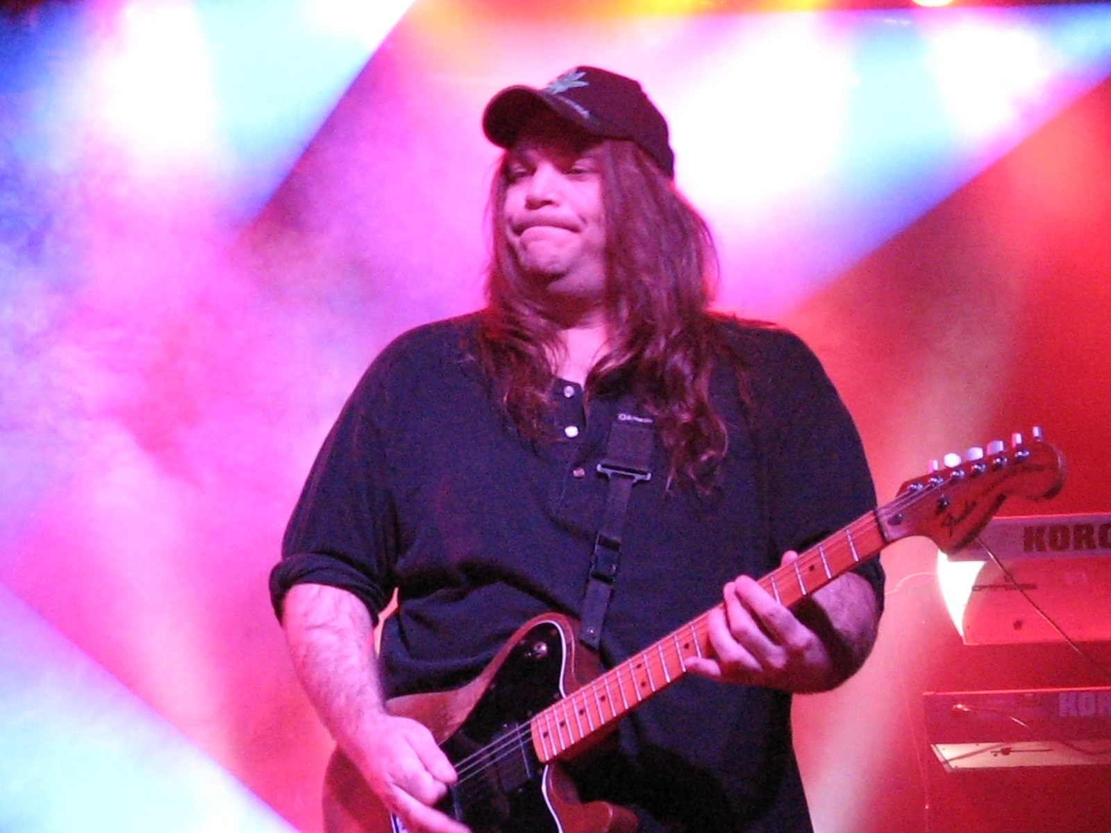 Jon Oliva's Pain on stage at ProgpowerUK 2, Cheltenham, England. March 31st 2007.